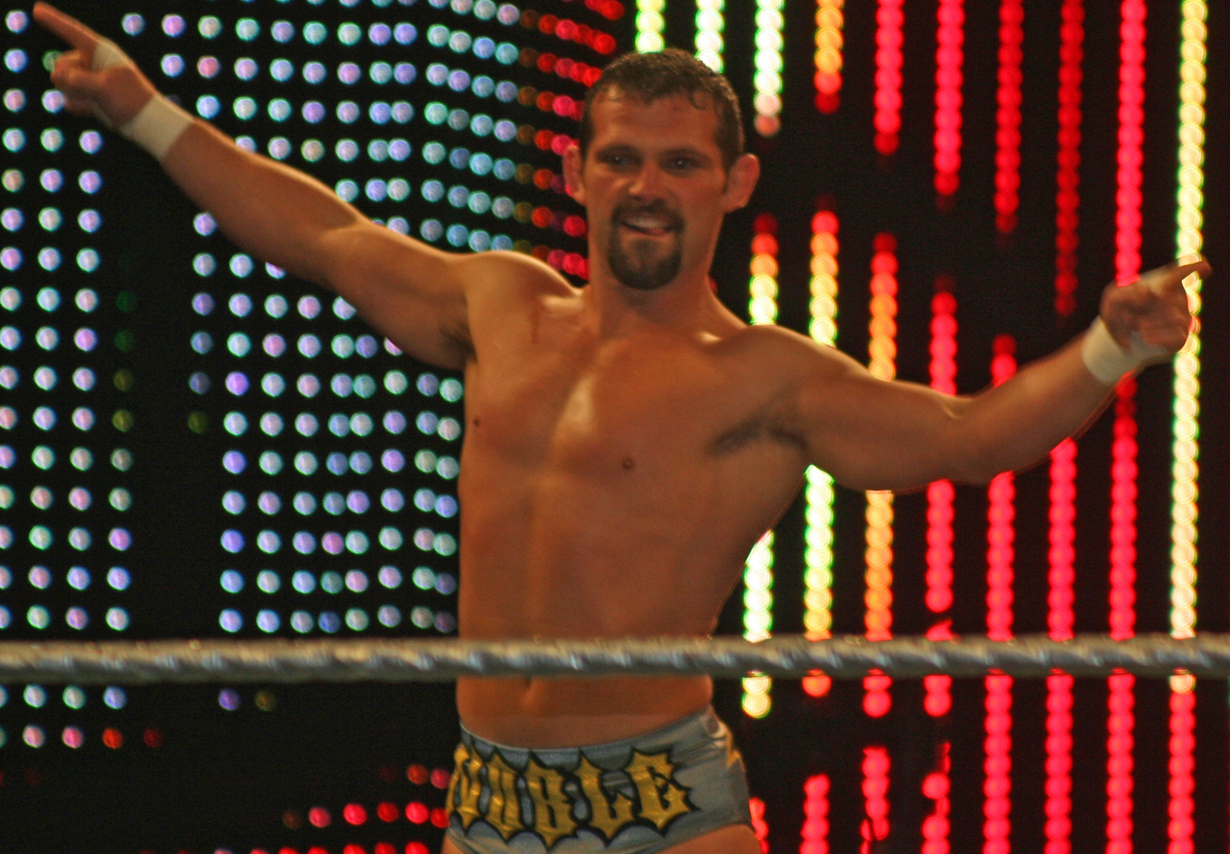 Jamie Noble about to wrestle a dark match before ECW tapings.